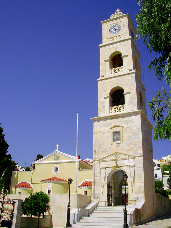 St. George, Syros, Greece